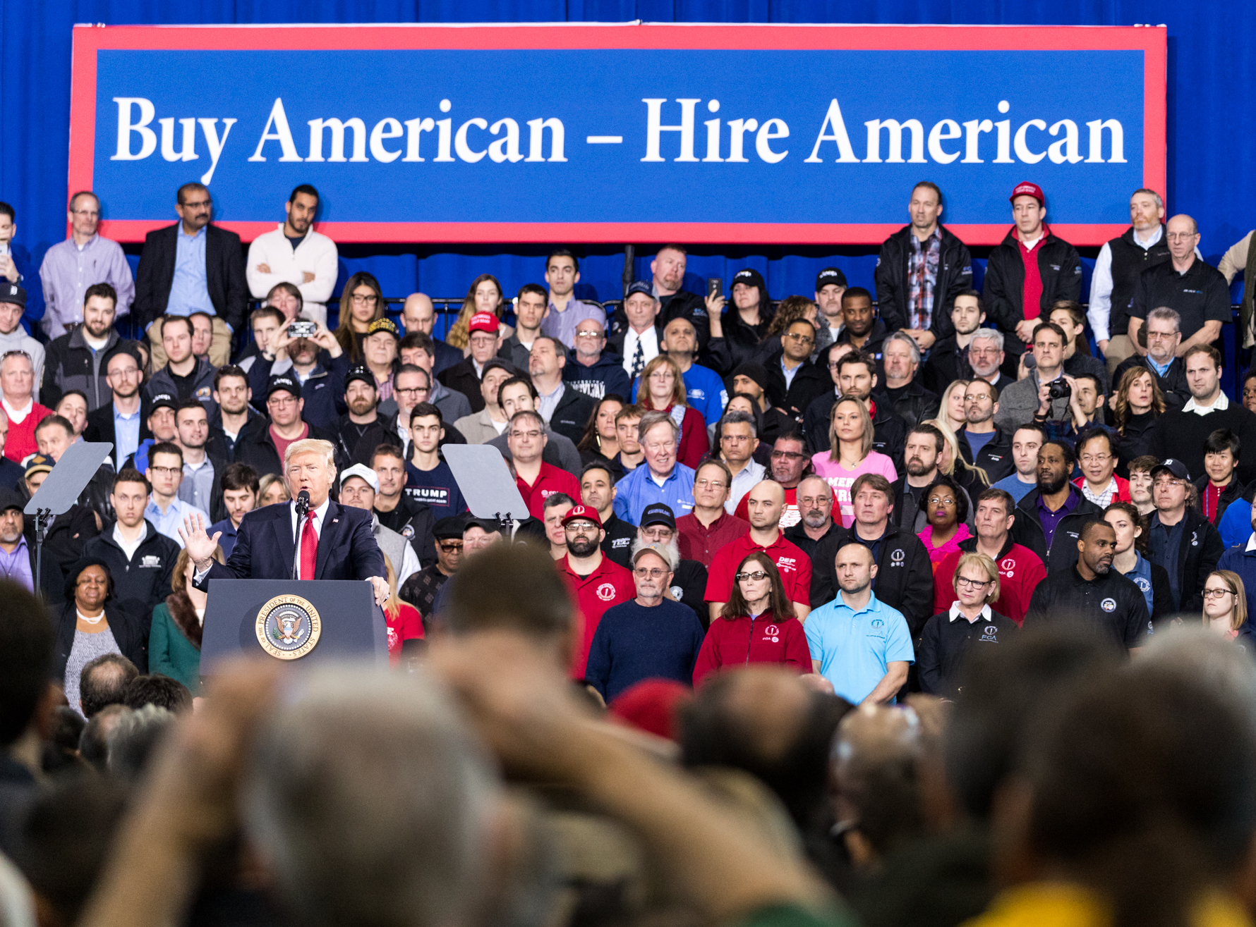 President Donald Trump delivers remarks on Wednesday, March 15, 2017, at the American Center for Mobility in Ypsilanti, Michigan. (Official White House Photo by Shealah Craighead)